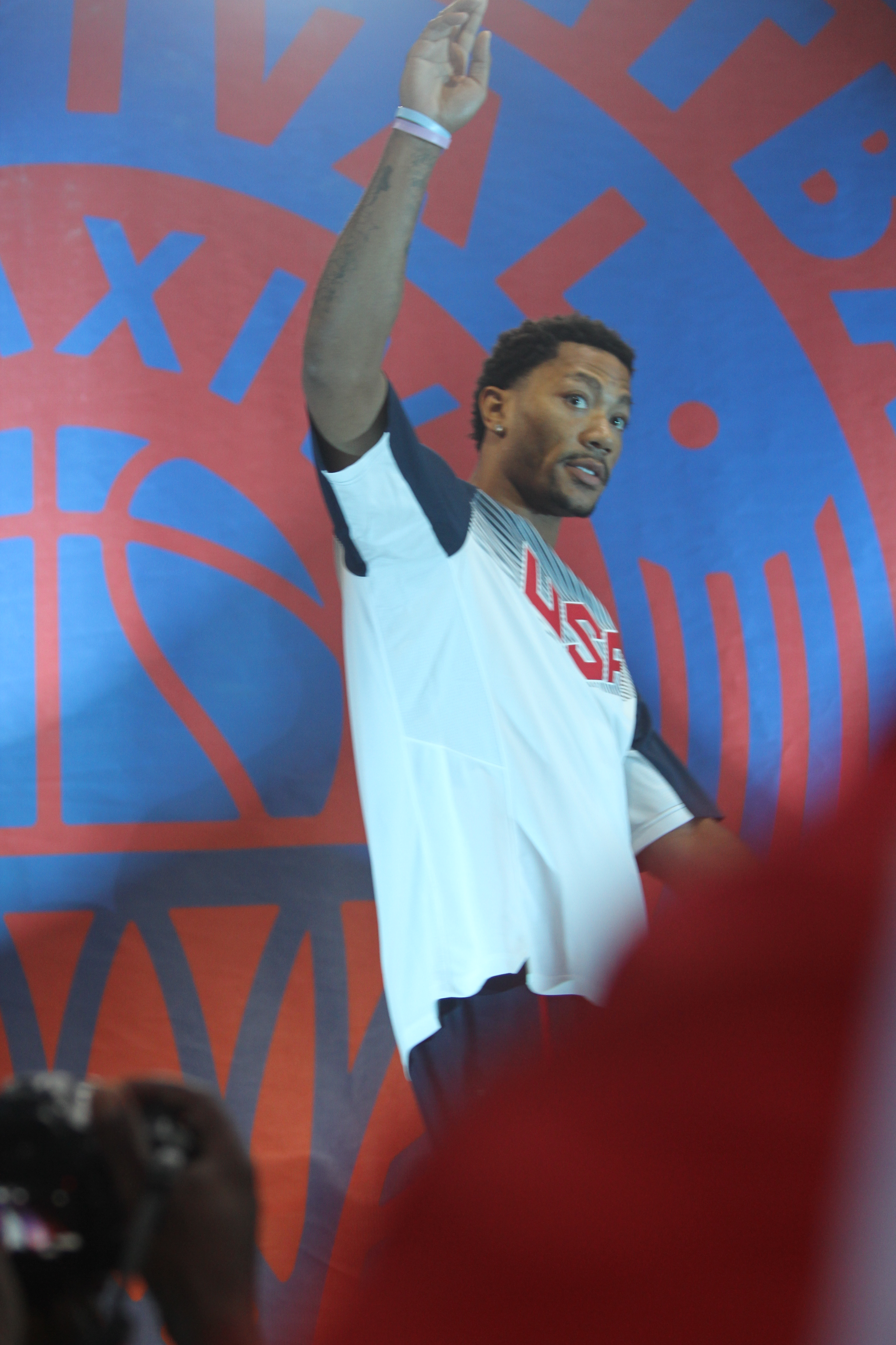 Derrick Rose at 2014 World Basketball Festival at 63rd Street Beach in Chicago